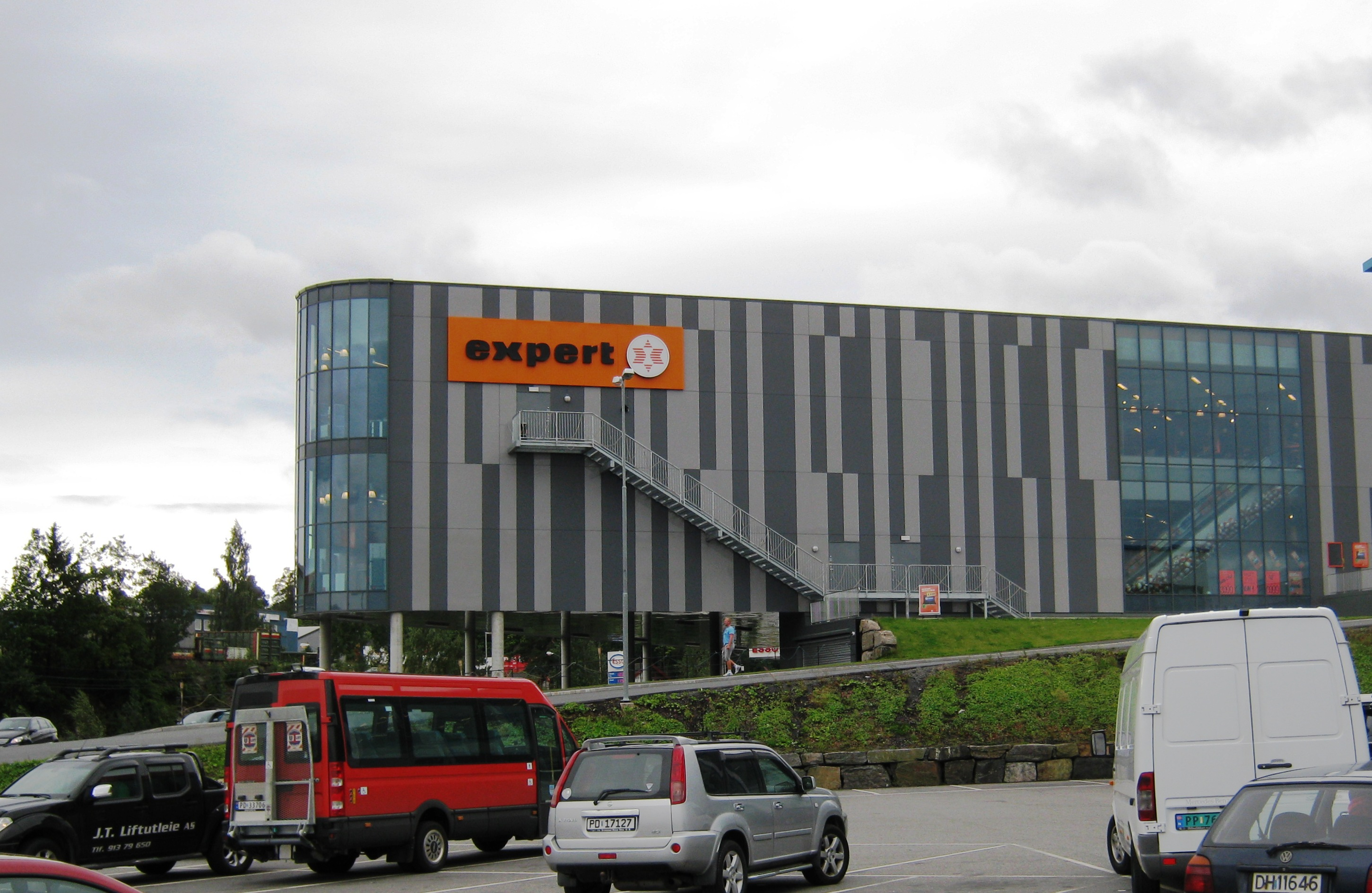 Electronic store Expert at Stoa, Arendal, Norway